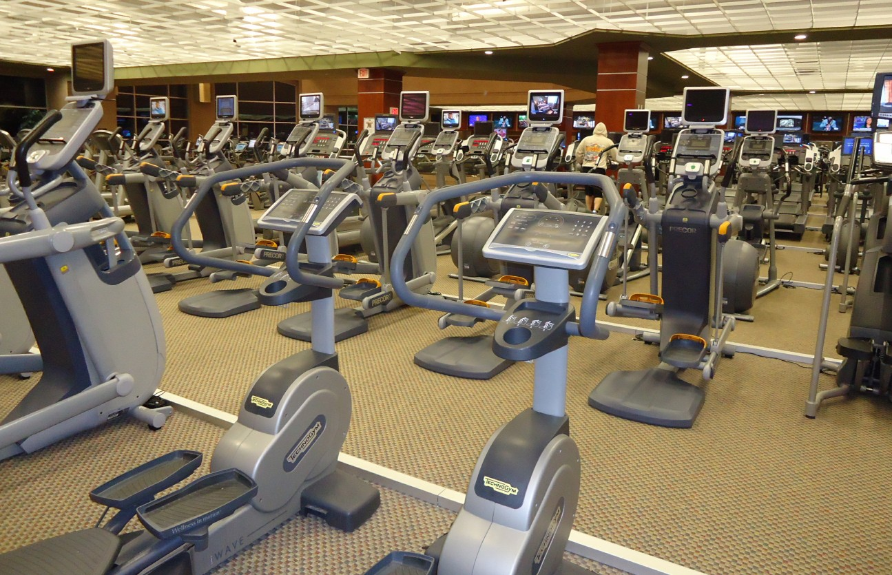 Fitness machines in a gymnasium in Berkeley Heights, New Jersey